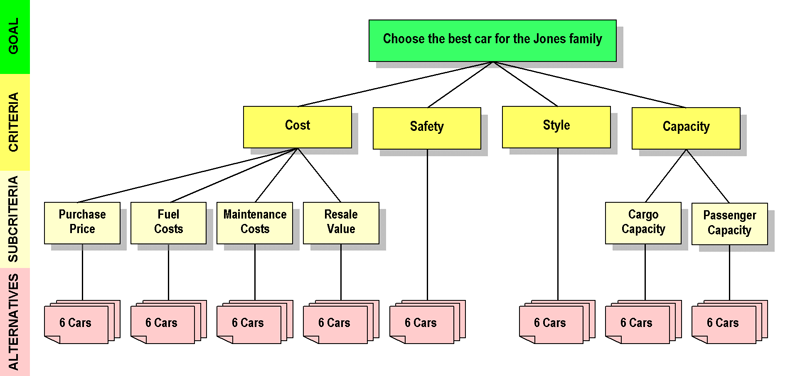 Analytic Hierarchy Process. Illustration for an article.